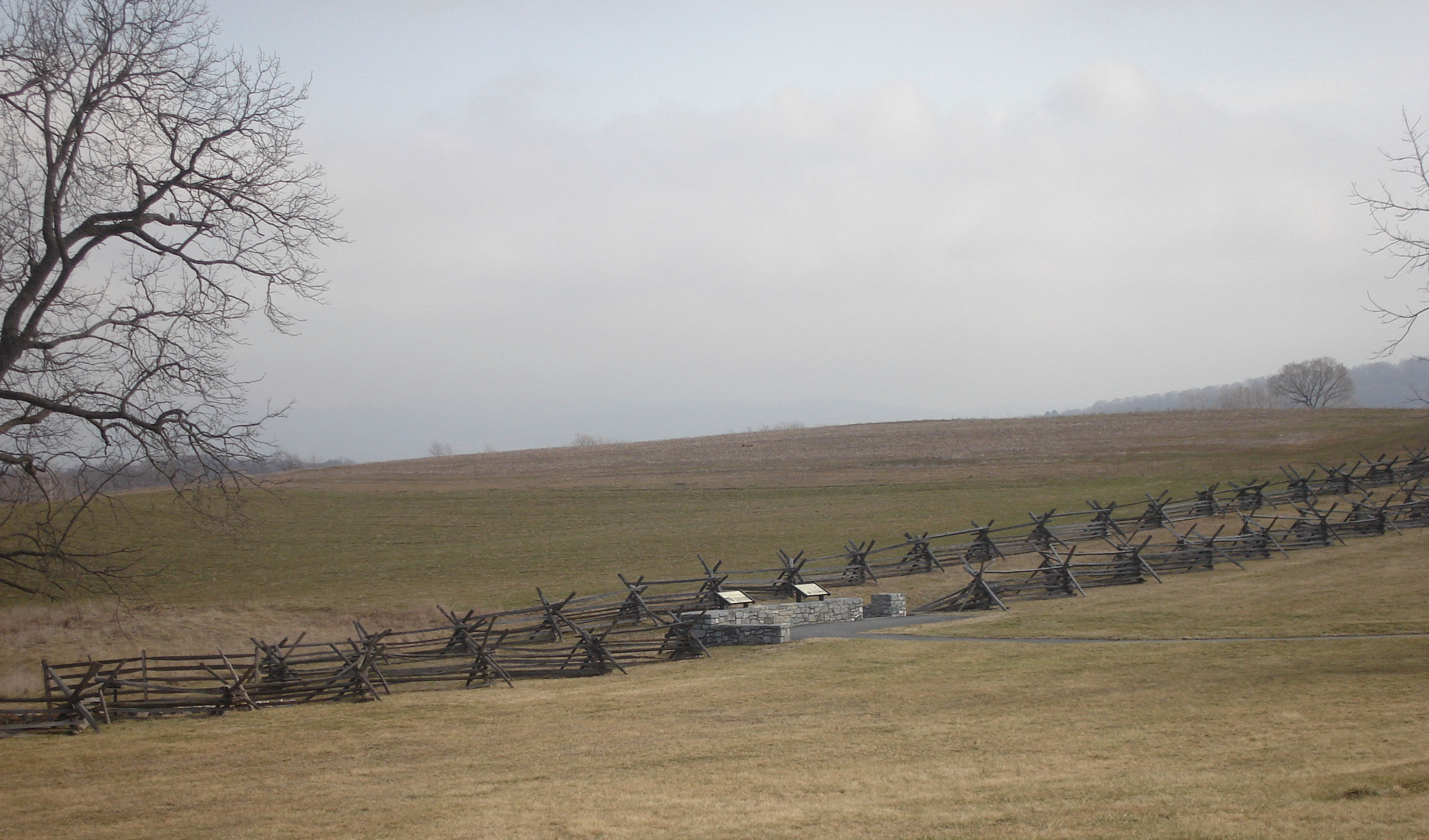 Image of the Sunken Road – "Bloody Lane". At the memorial Antietam National Battlefield, in northwestern Maryland.